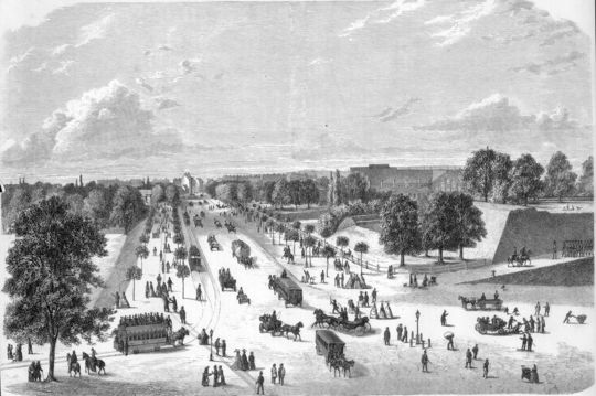 Vesterbros Passage in 1867 in Copenhagen, Denmark